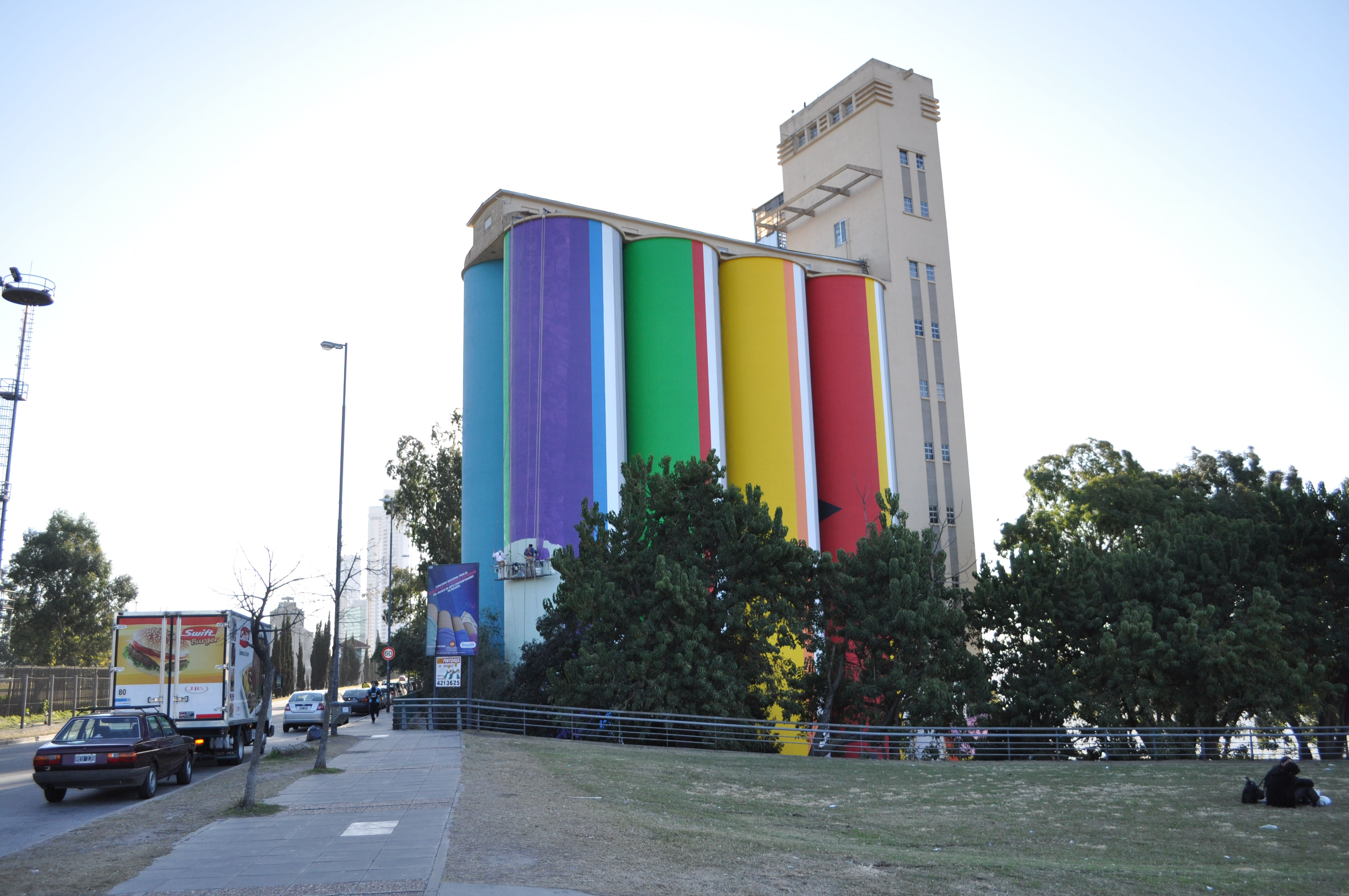 fotos de la nueva fachada del edificio del Macro